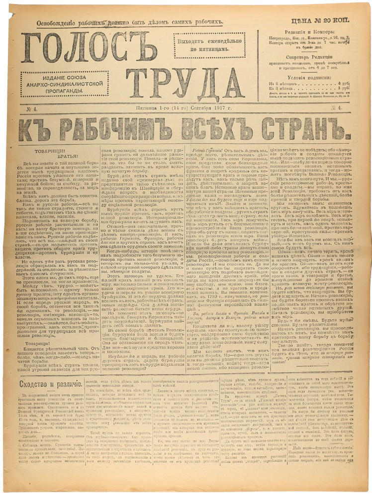 Sept 14 (OS Sept 1), 1917, issue of the Russian anarcho-syndicalist newspaper Golos Truda (Голос Труда)